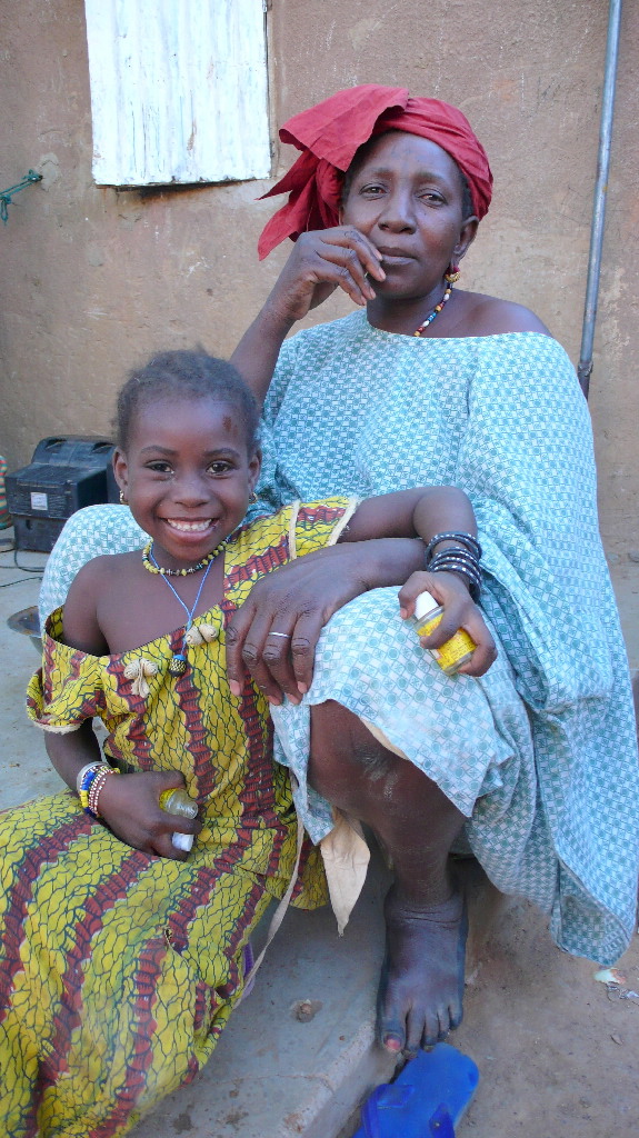 A woman and a girl Soninké. Selibaby, Guidimakha, Mauritania